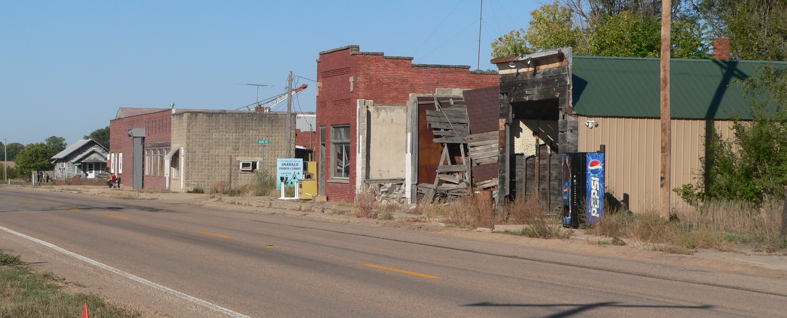 Noth side of Blaine Street (U.S. Highway 136) in Inavale, Nebraska.